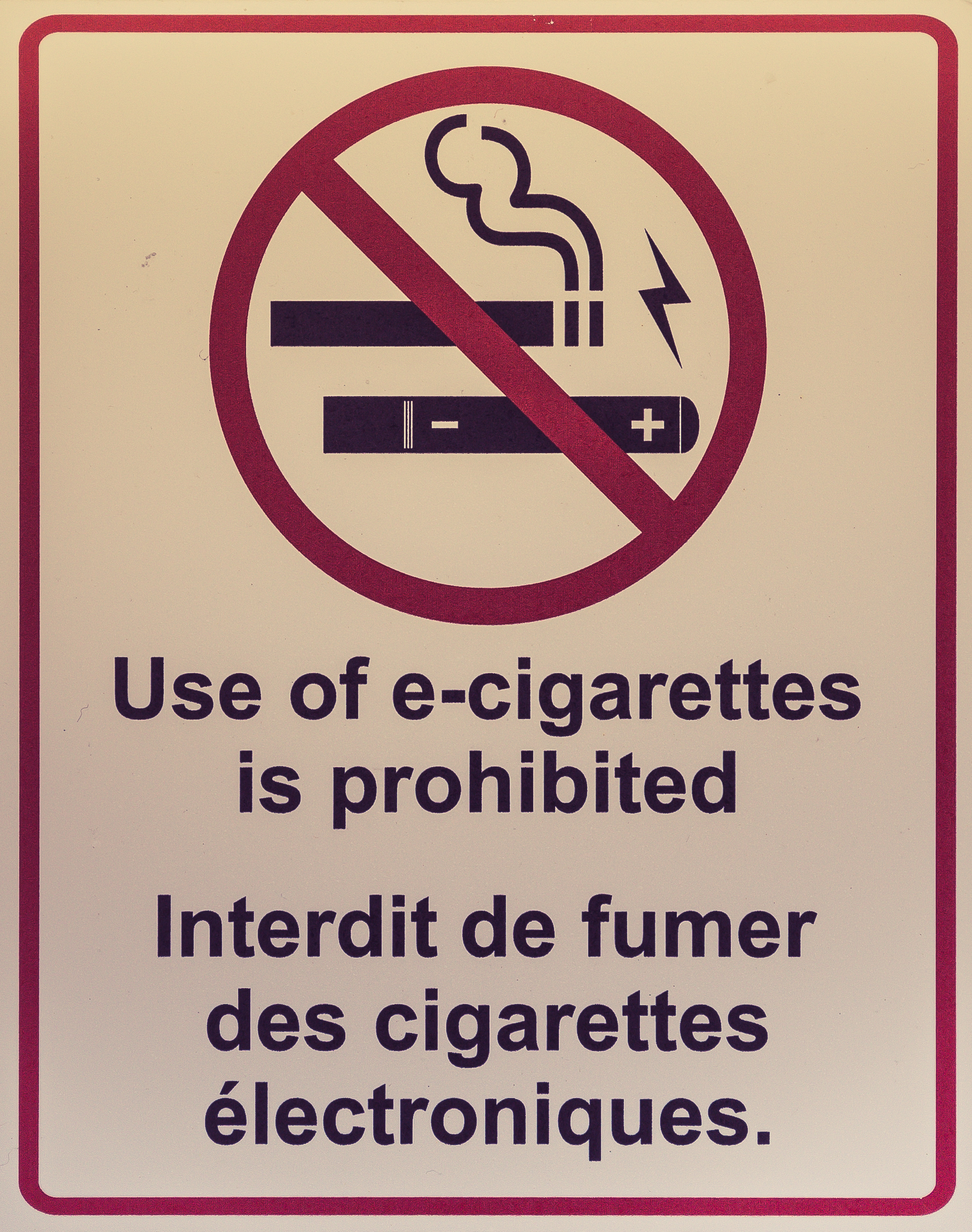 No vaping sign on a ferry ship (Saint John, New Brunswick, Canada).